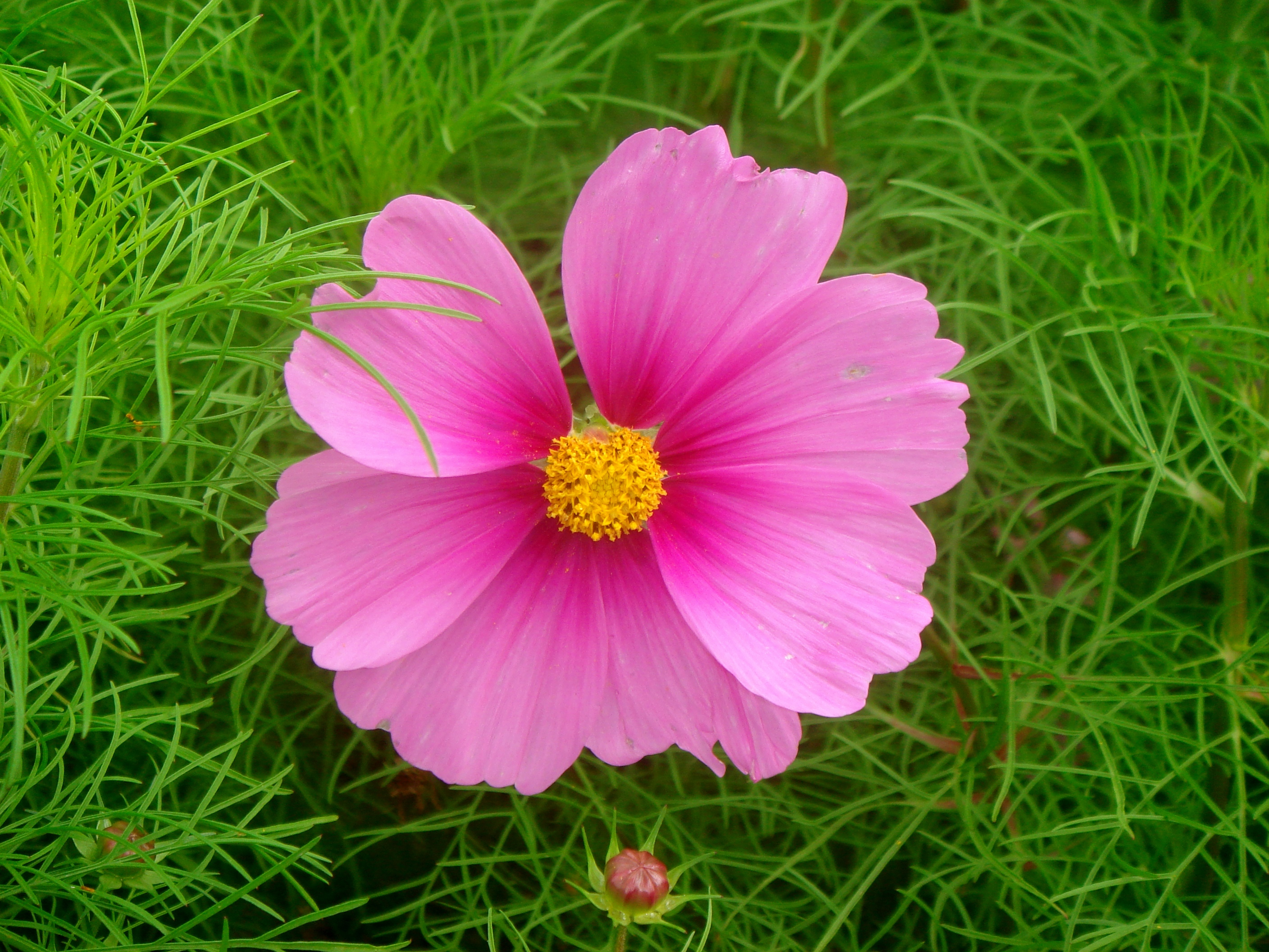 Cosmos Bipinnatus